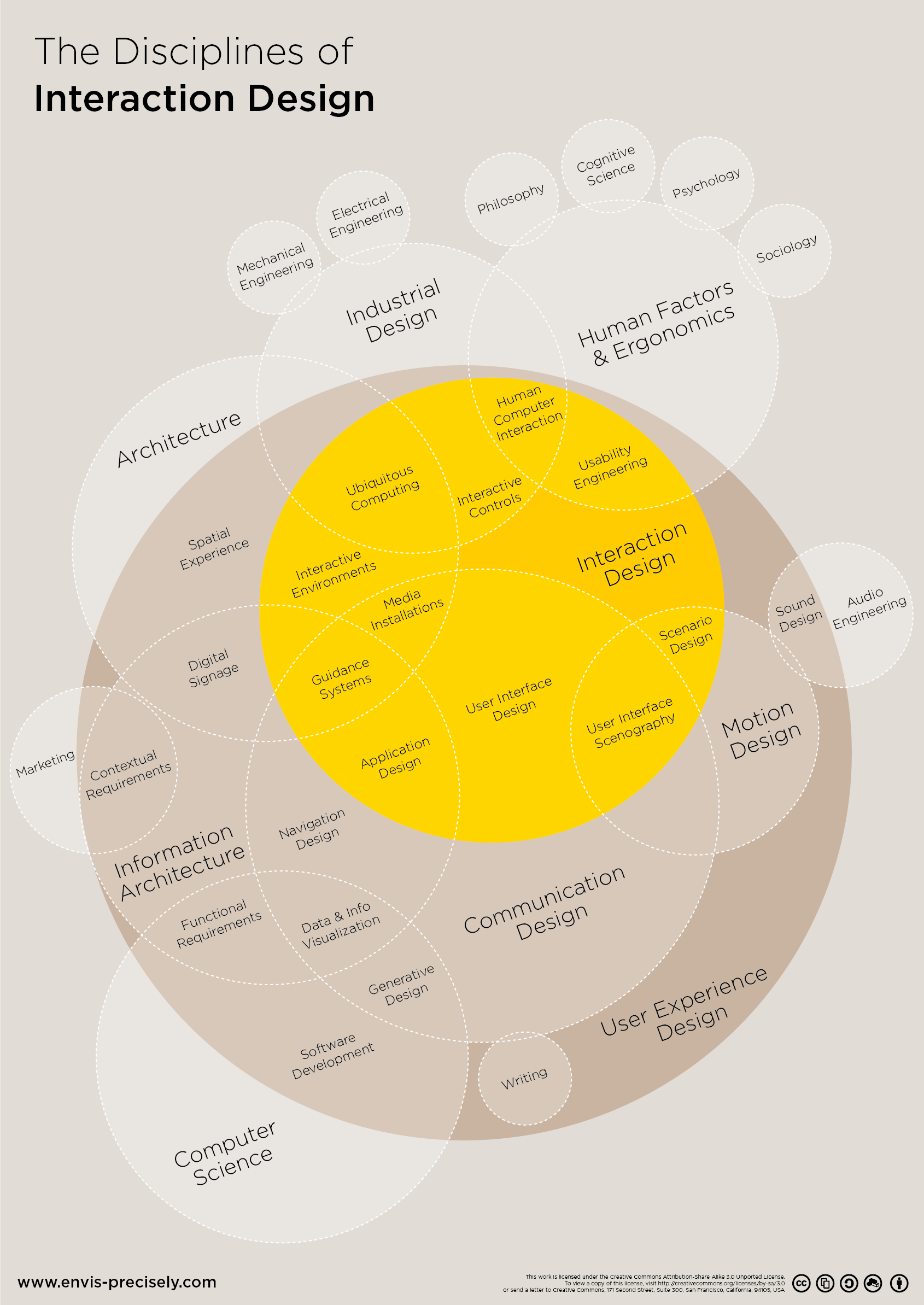 A bubble graphic overview showing the relations between interaction design and its overlapping disciplines.